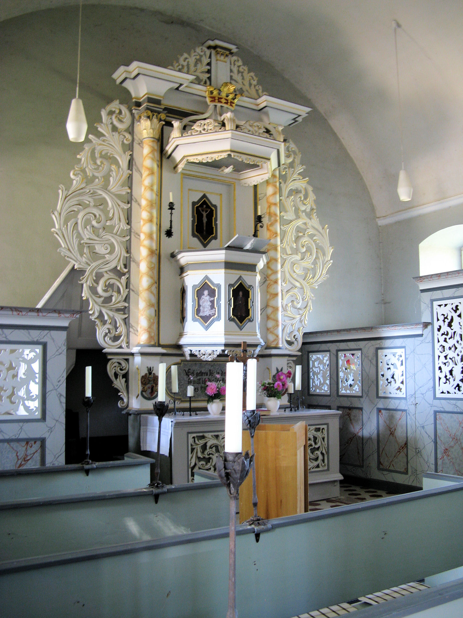 Pulpit in the church in Klink, disctrict Müritz, Mecklenburg-Vorpommern, Germany